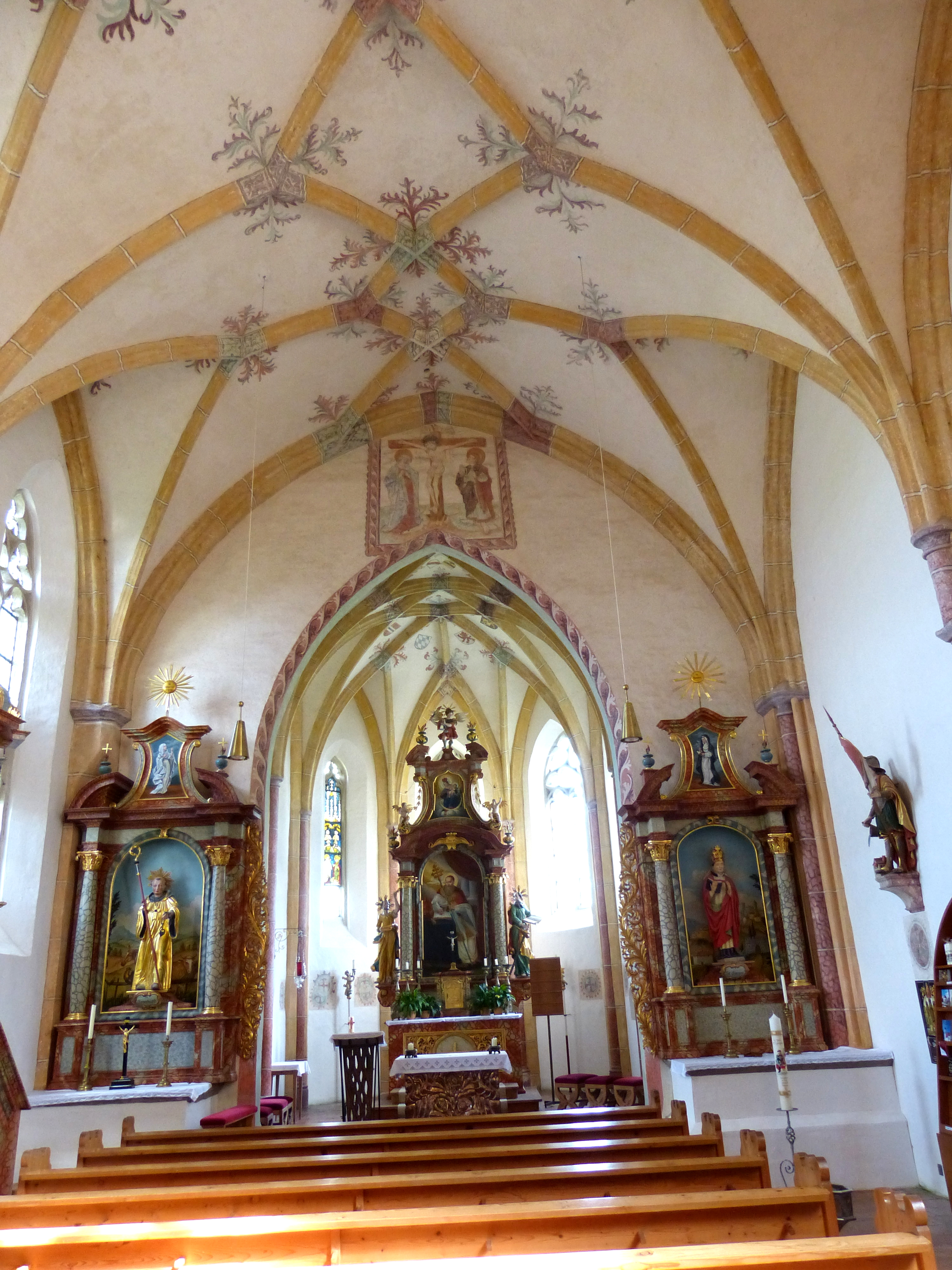 Grongörgen ( Lower Bavaria ). Saint Gregory church ( 1460 ): Interior.